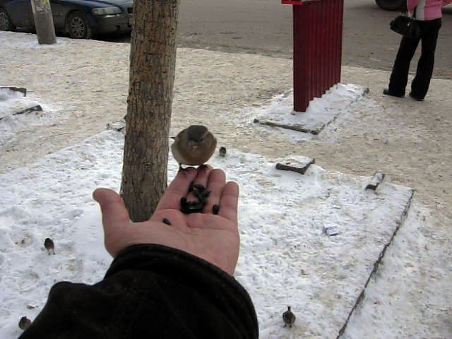 Feeding of sparrow